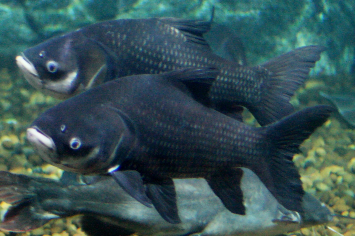 A pair of Giant barb Catlocarpio siamensis